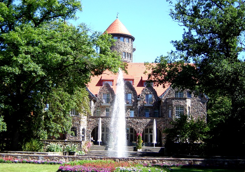 Castle Schloss Wendgräben in the town of Möckern, Saxony-Anhalt